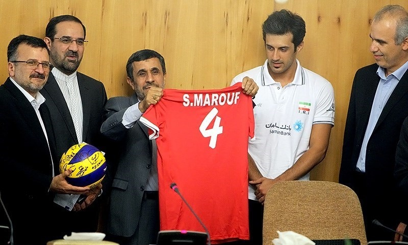 Saeid Marouf, captain of Iran national voleyball team with President Ahmadinejad